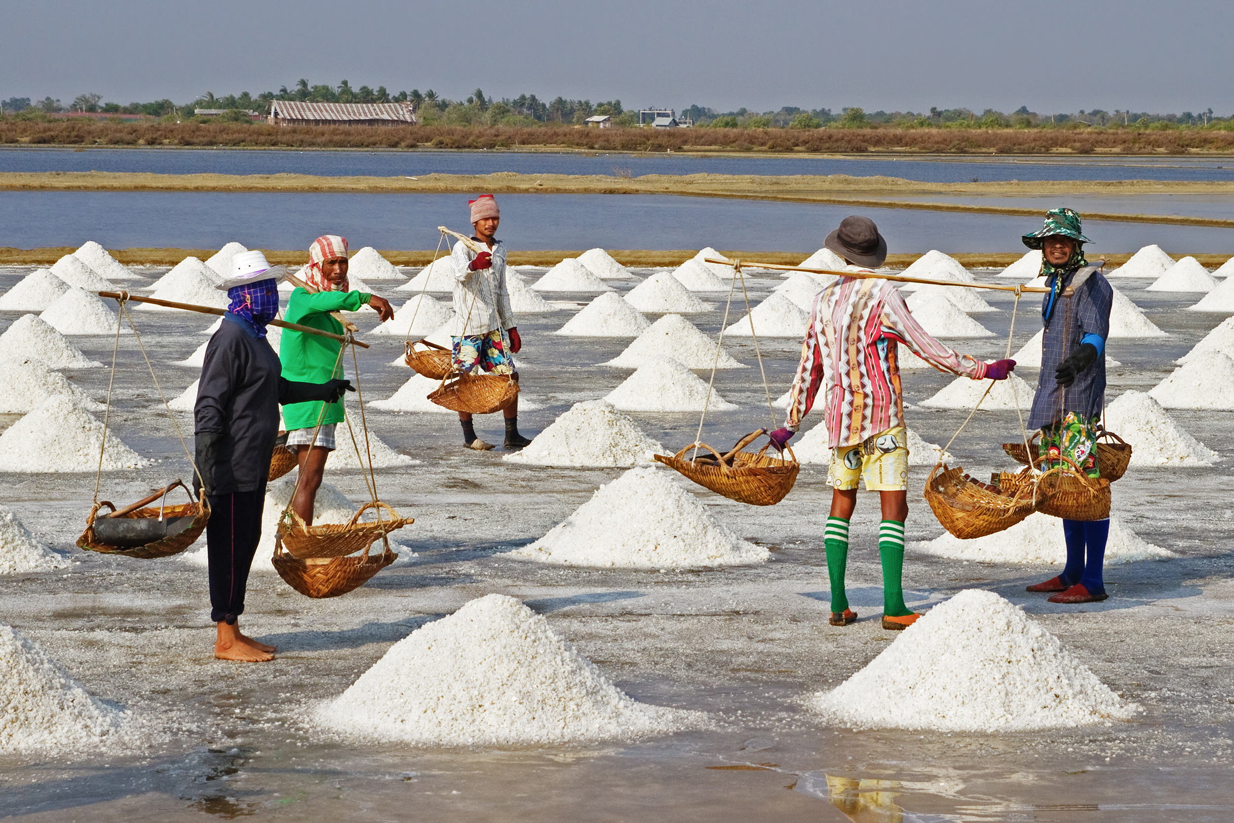 Salt farmers harvesting salt, Pak Thale, Ban Laem, Phetchaburi, Thailand